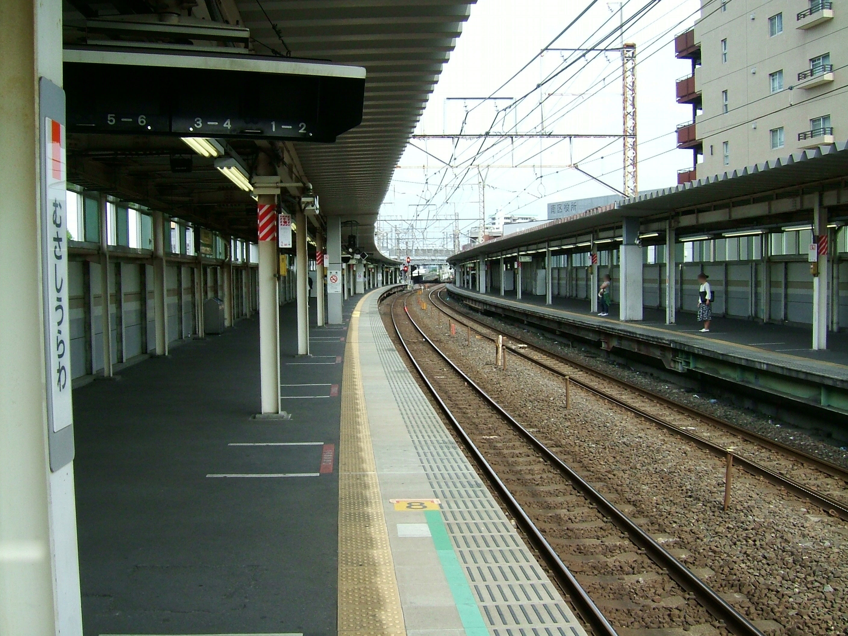 View of the Musashino Line platforms at Musashi-Urawa Station in Saitama Prefecture, Japan